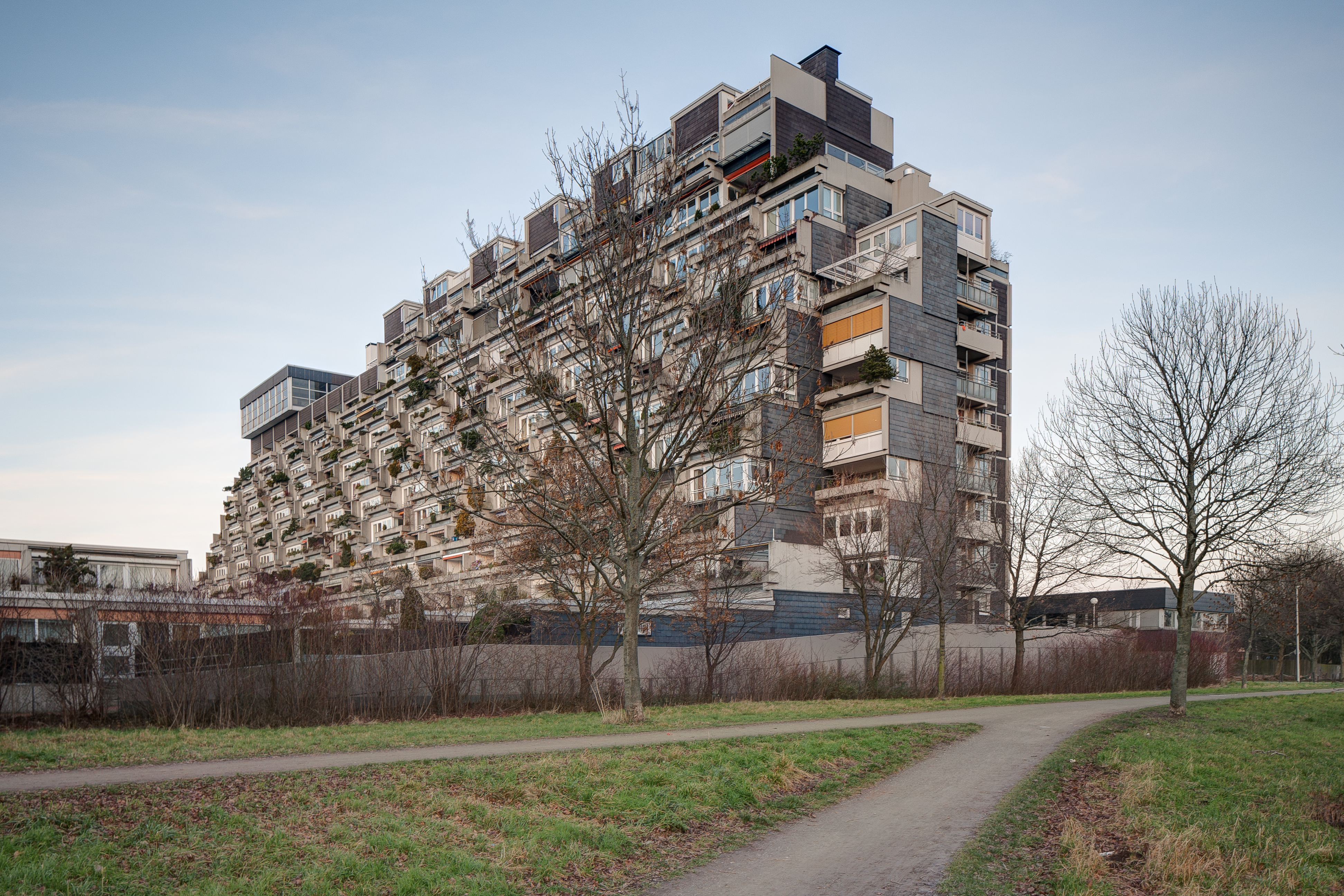 Highrise "Terrassenhochhaus" located in Hanover's district Davenstedt, Germany. The image depicts the western side.